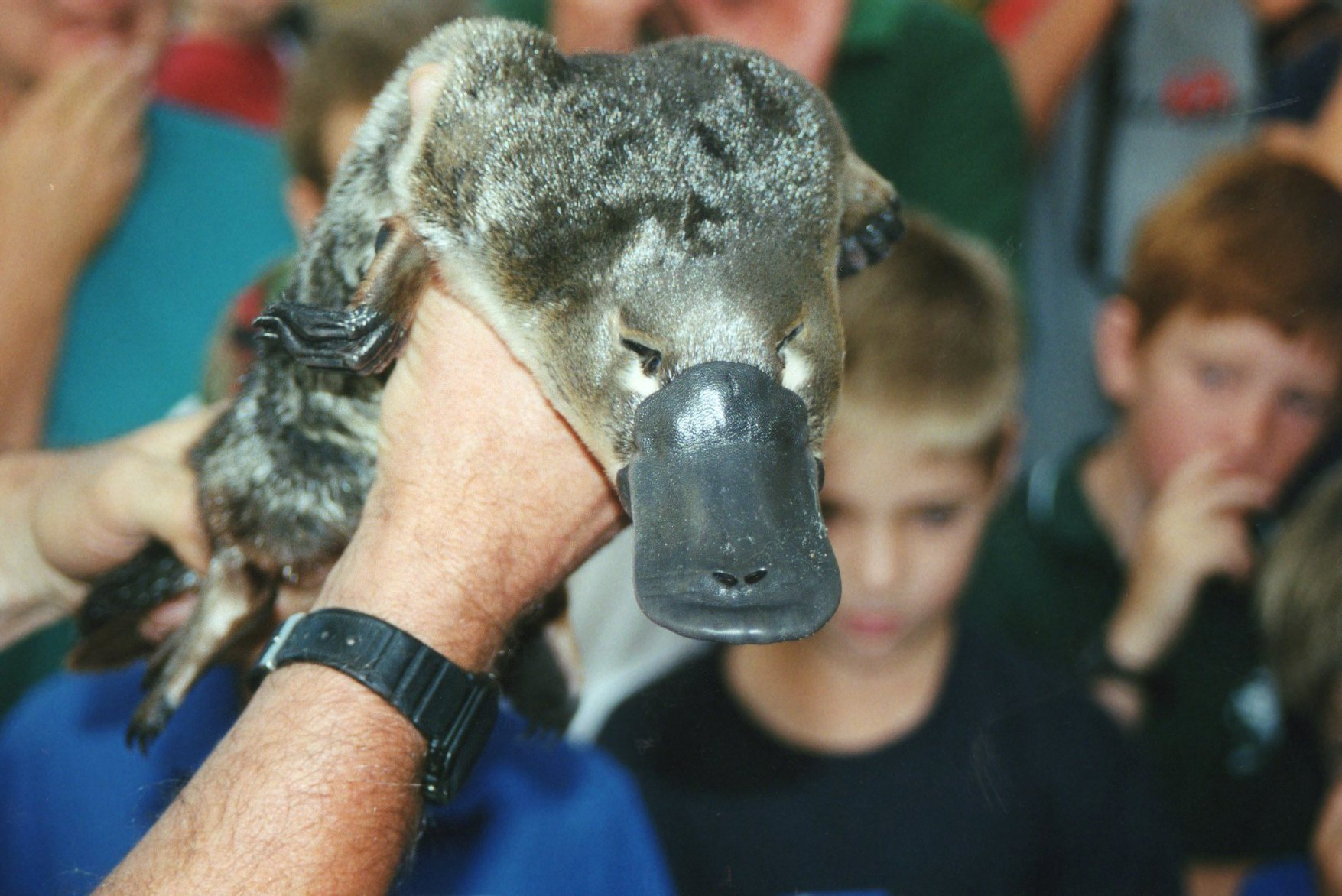 Platypus, shown by a zoologist near the Barwon River, in Geelong (Victoria, Australia)